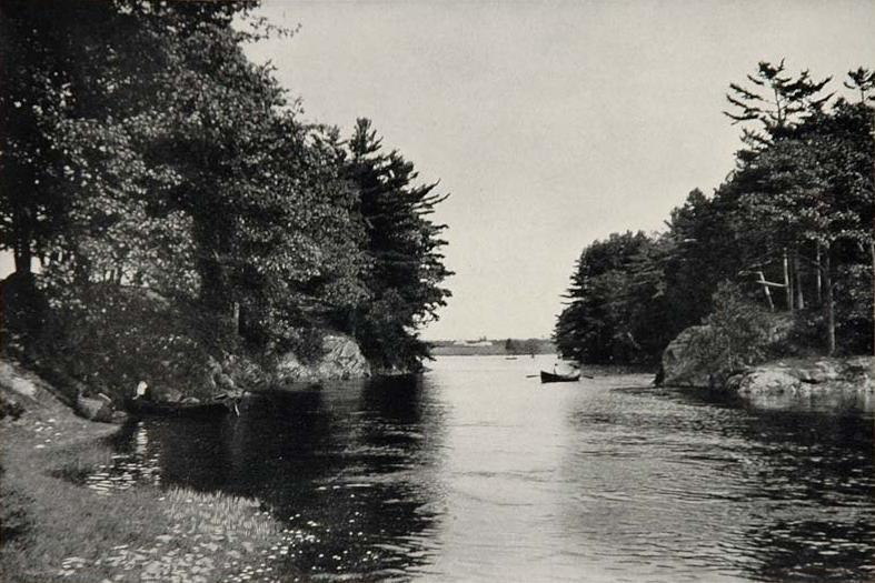 View of Kennebunk River, ME; from an original halftone print published in 1903 by the Boston & Maine Railroad.